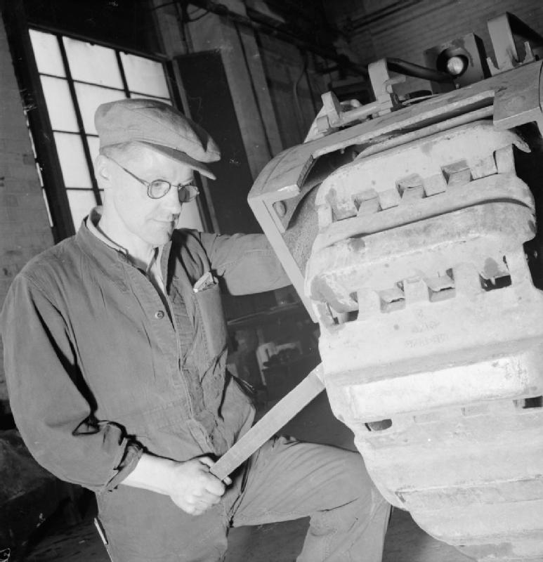 Tank Factory- the Construction of Matilda Tanks, 1942 John William Durham is a senior, or Shop Steward and Convenor. He is a fitter by trade and has been working on Matilda tanks since the outbreak of war. Here, he is adjusting something on the tank track.